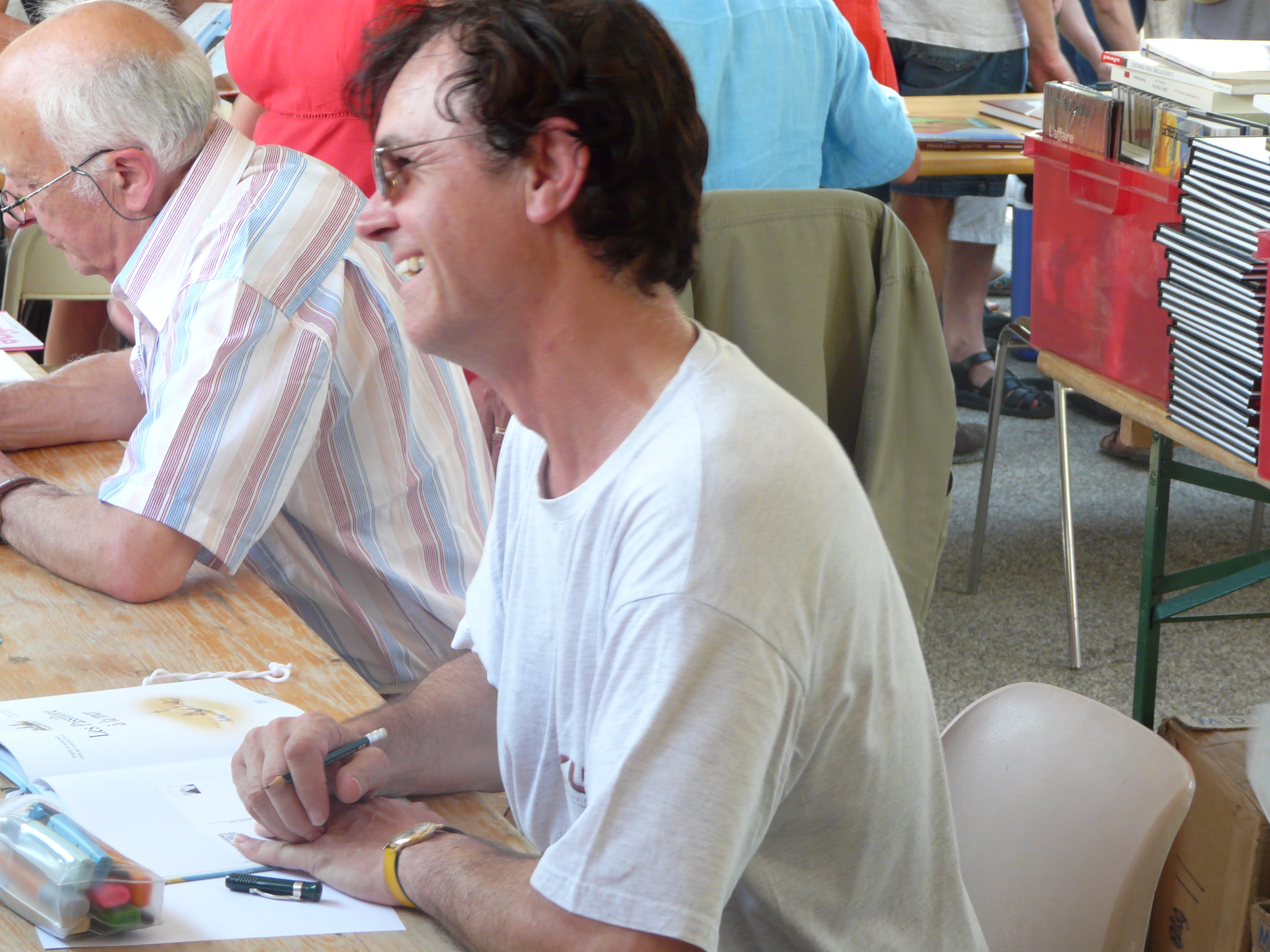 Photographs taken during the International Comic Festival of Sollies Ville, France